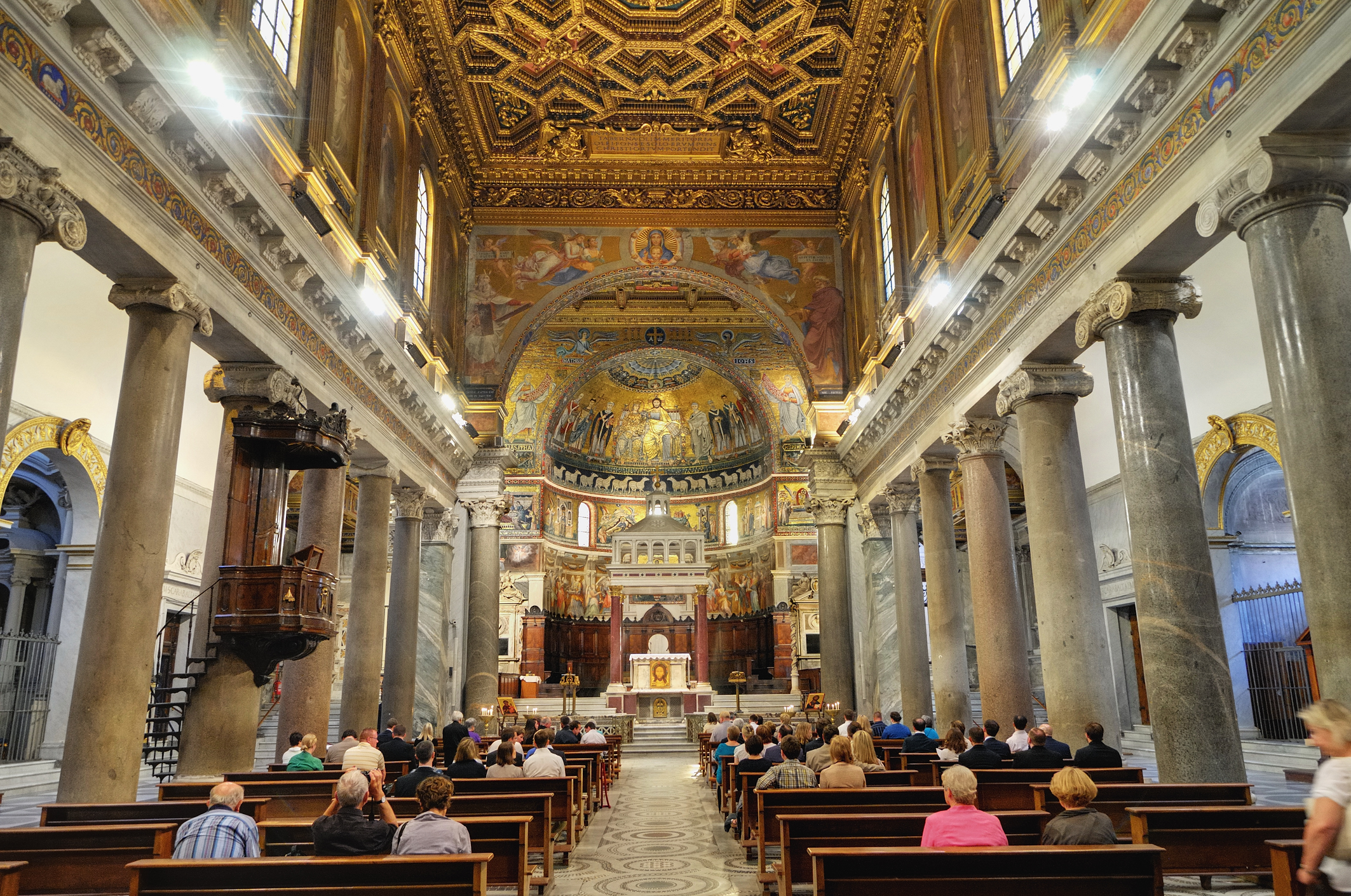 The Interior of Santa Maria in Trastevere, Rome